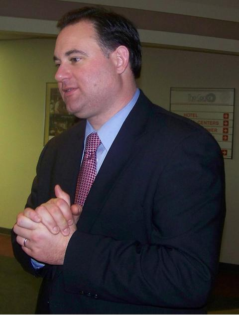 Manchester, NH mayor Frank Guinta